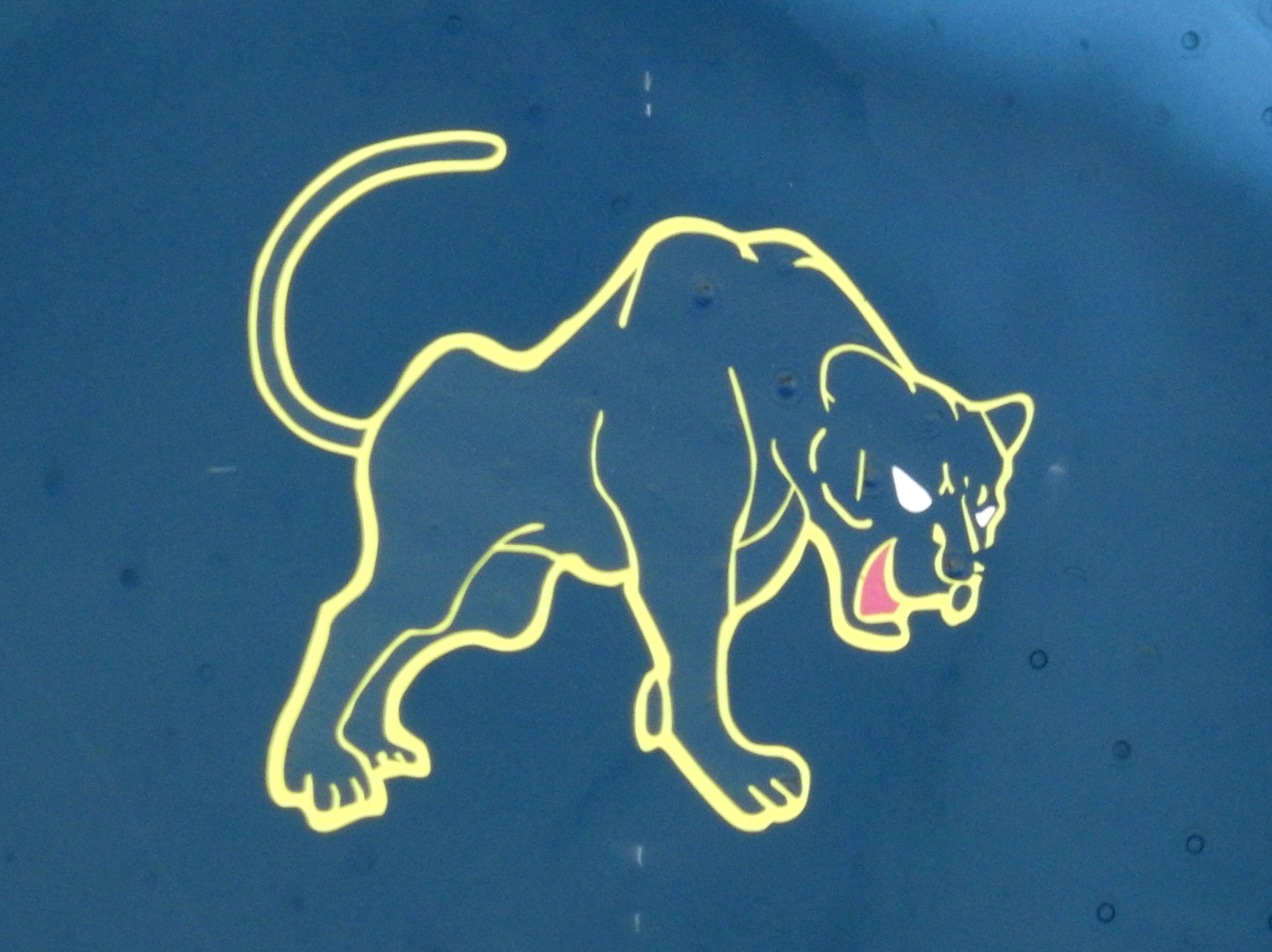 The tail marking of 8th Tactical Fighter Squadron Mitsubishi F-2A 43-8528 at the 2017 Iruma Air Show.